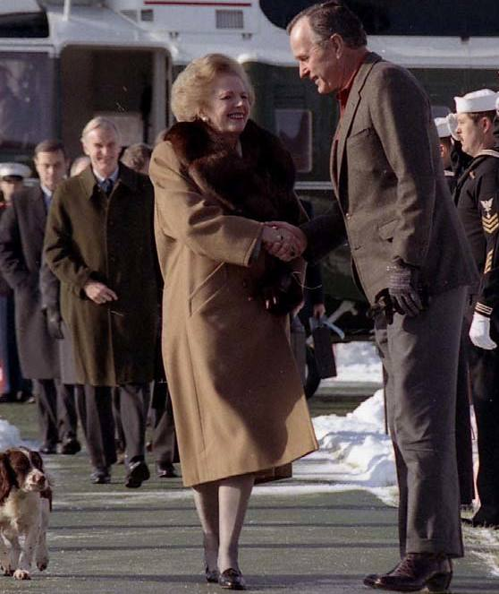 Margaret Thatcher visiting President George H. W. Bush at Camp David.